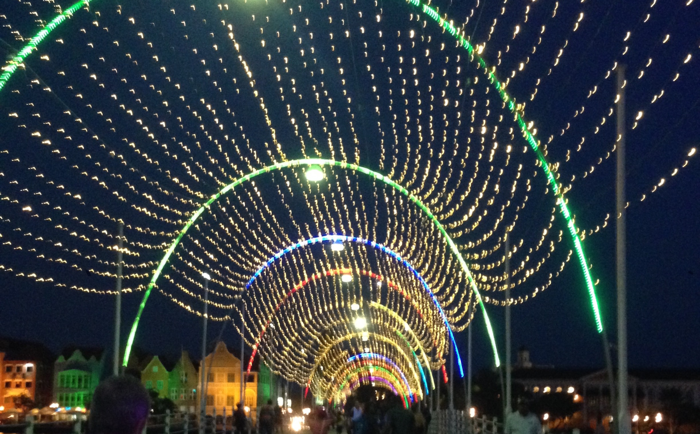 The Queen Emma bridge in Willemstad at night.